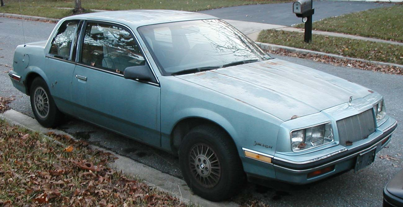 1985-1987 Buick Somerset photographed in USA.